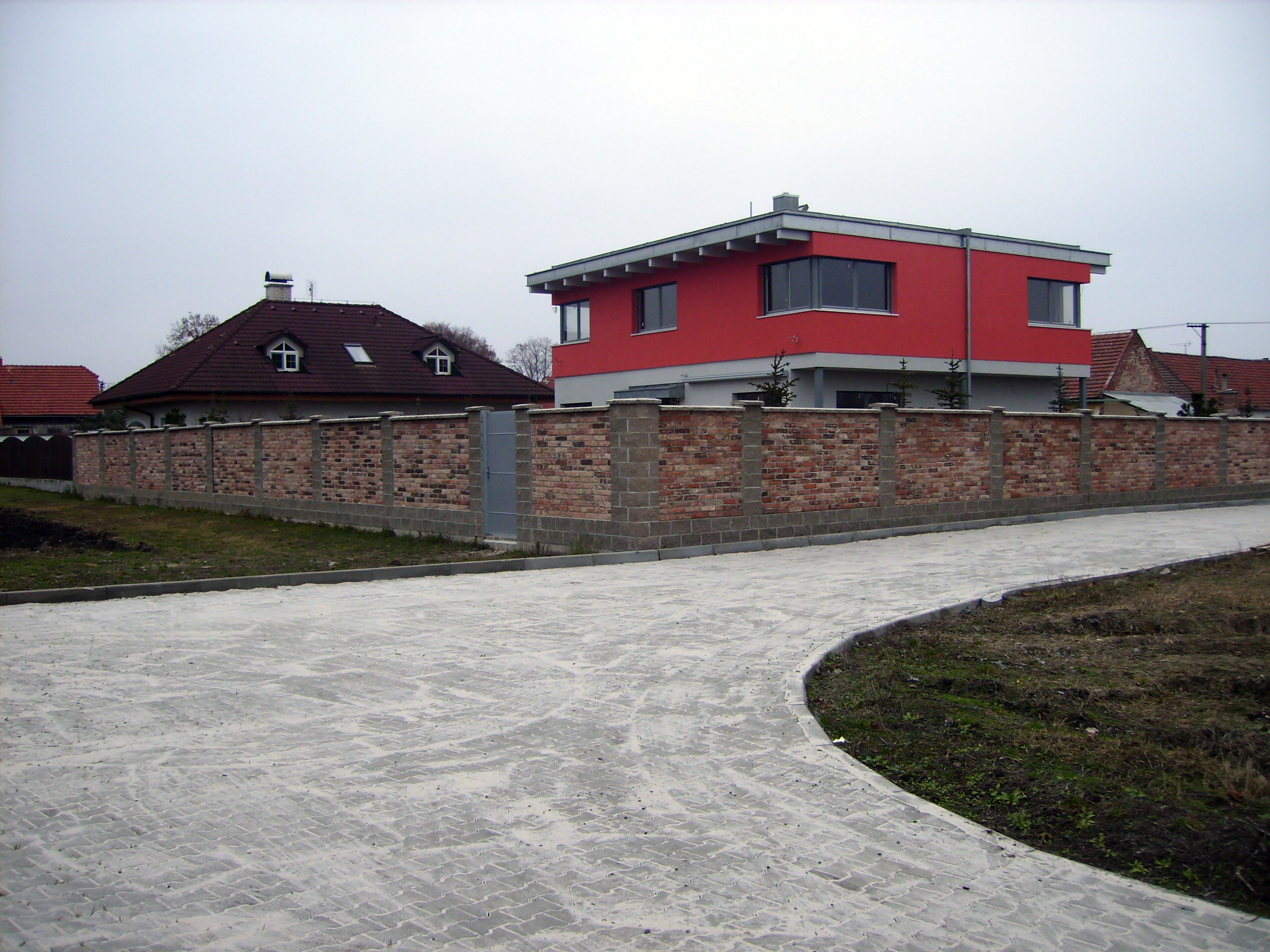 Starý Vestec - new architecture in old village, Central Bohemia, Czech Republic